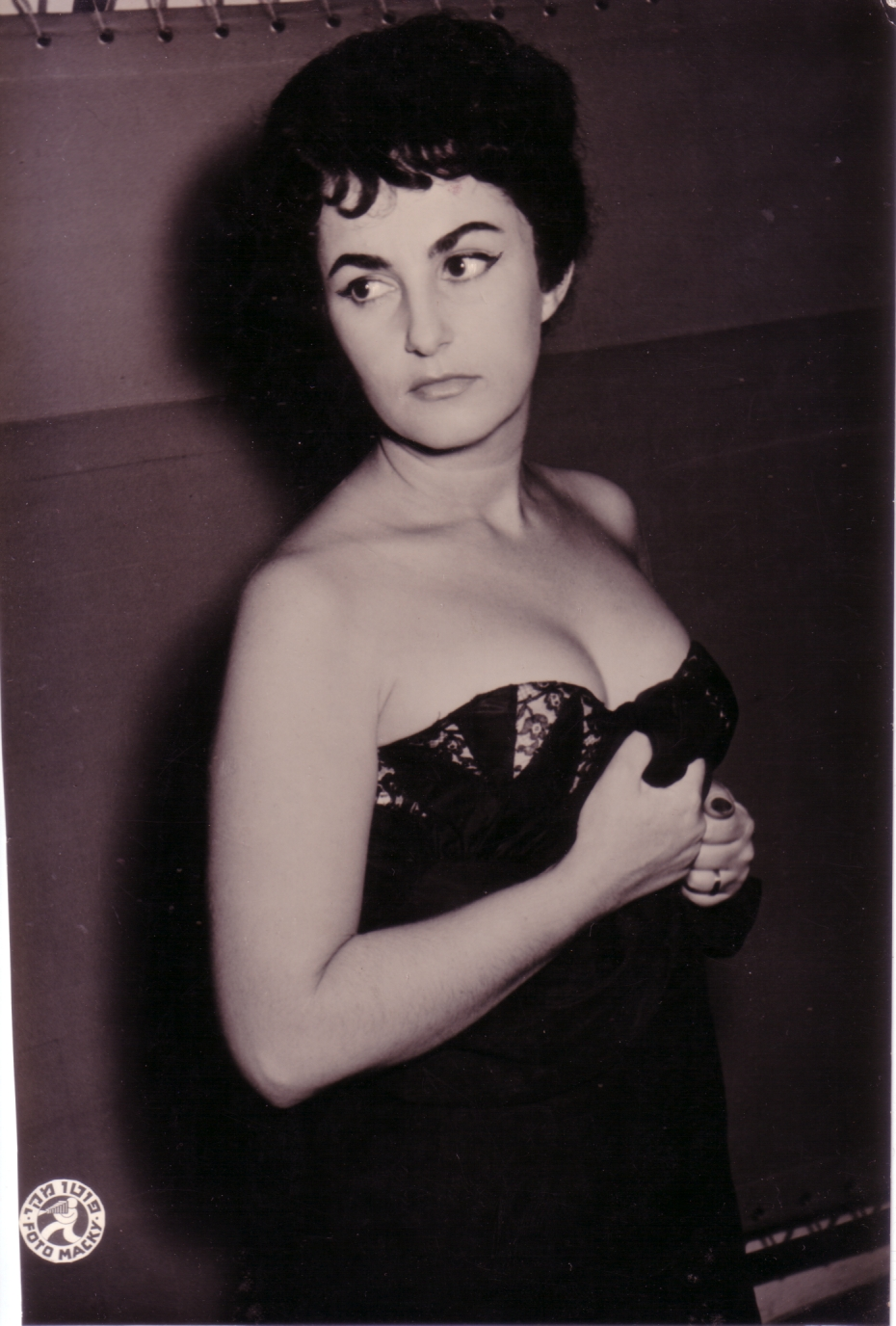 Scanned promotional photo of Pnina Gary, taken in 1958 in Tel-Aviv.